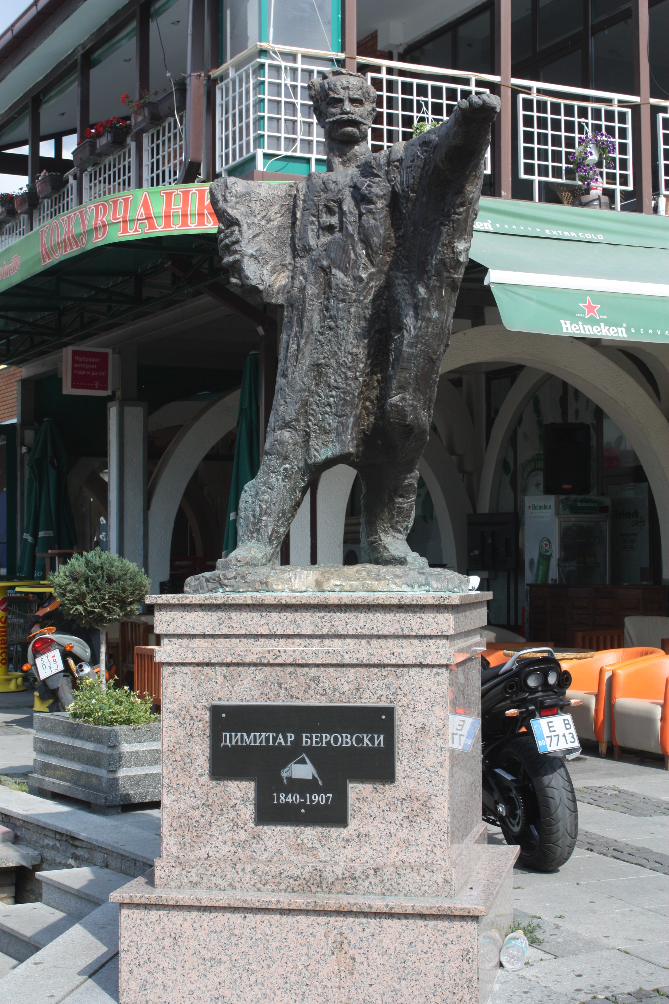 Monument in Berovo, Macedonia This image is uploaded as part of the picture contest Wiki Loves Cultural Heritage in Macedonia 2013. English | македонски | +/−